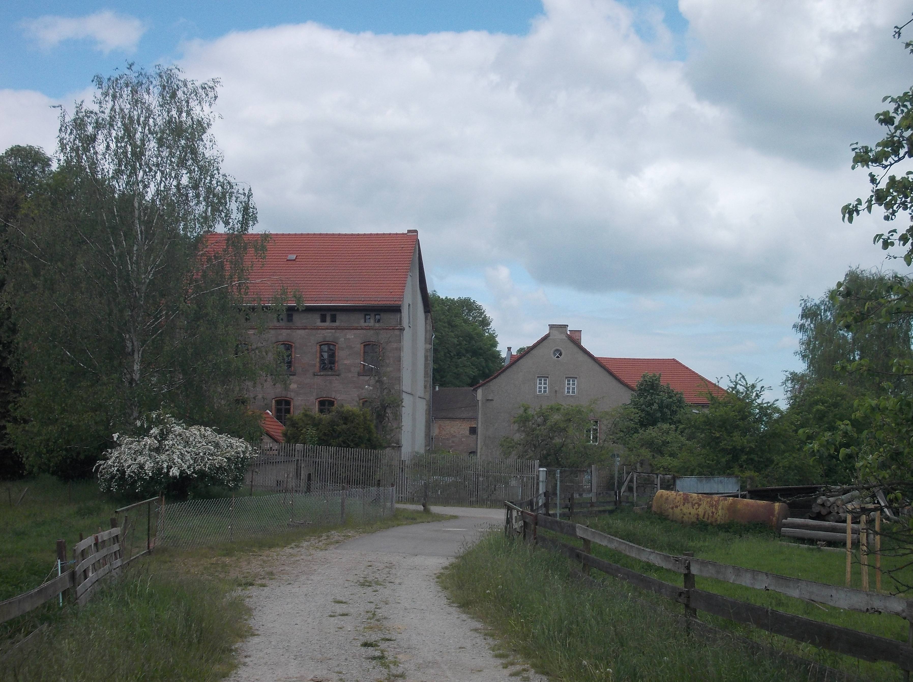 Kroppen Mill in Kroppen Valley near Schönburg (district: Burgenlandkreis, Saxony-Anhalt)